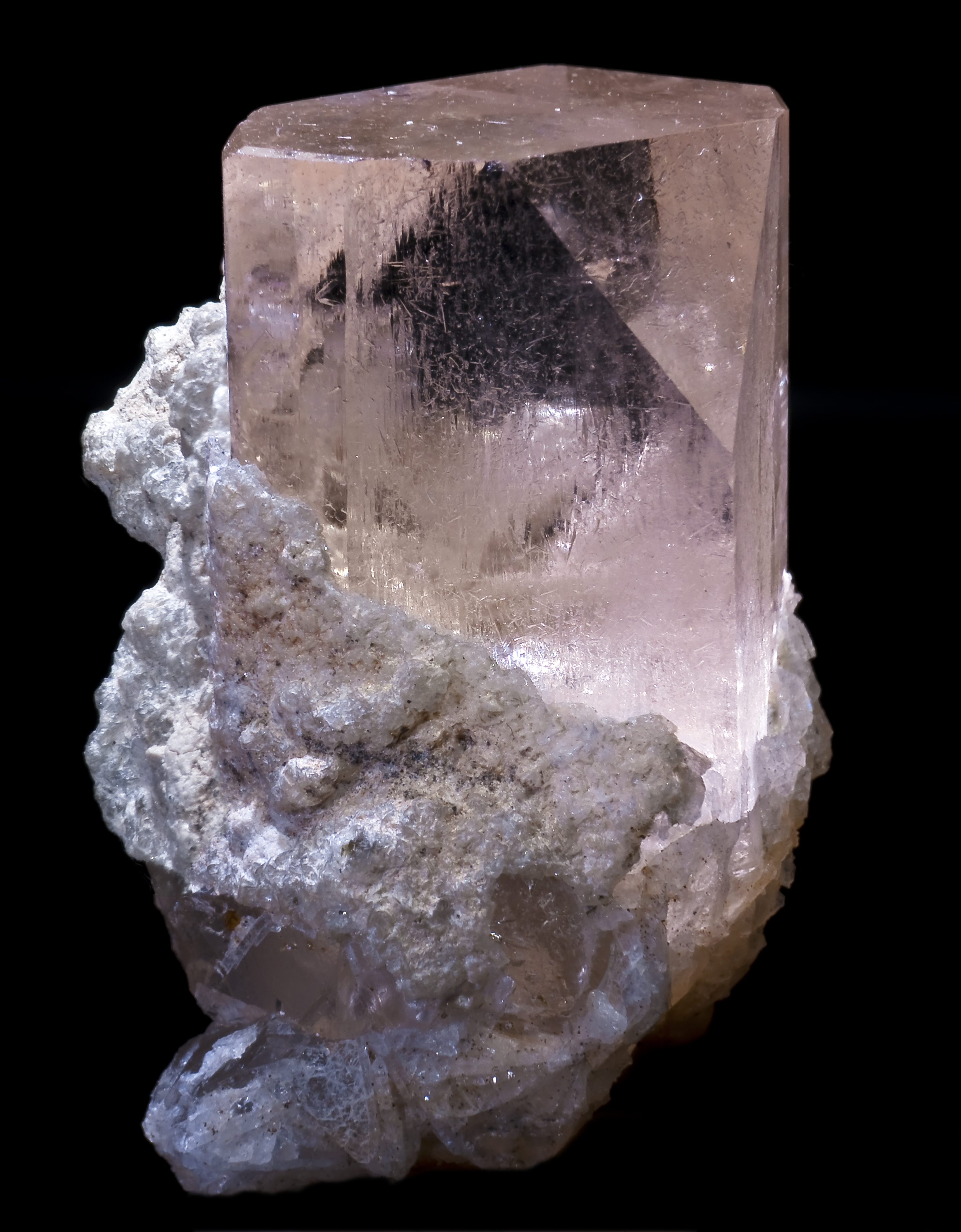 Pink topaz - Shigar Valley, Skardu District, Baltistan, Northern Areas, Pakistan - (3x1.6cm)